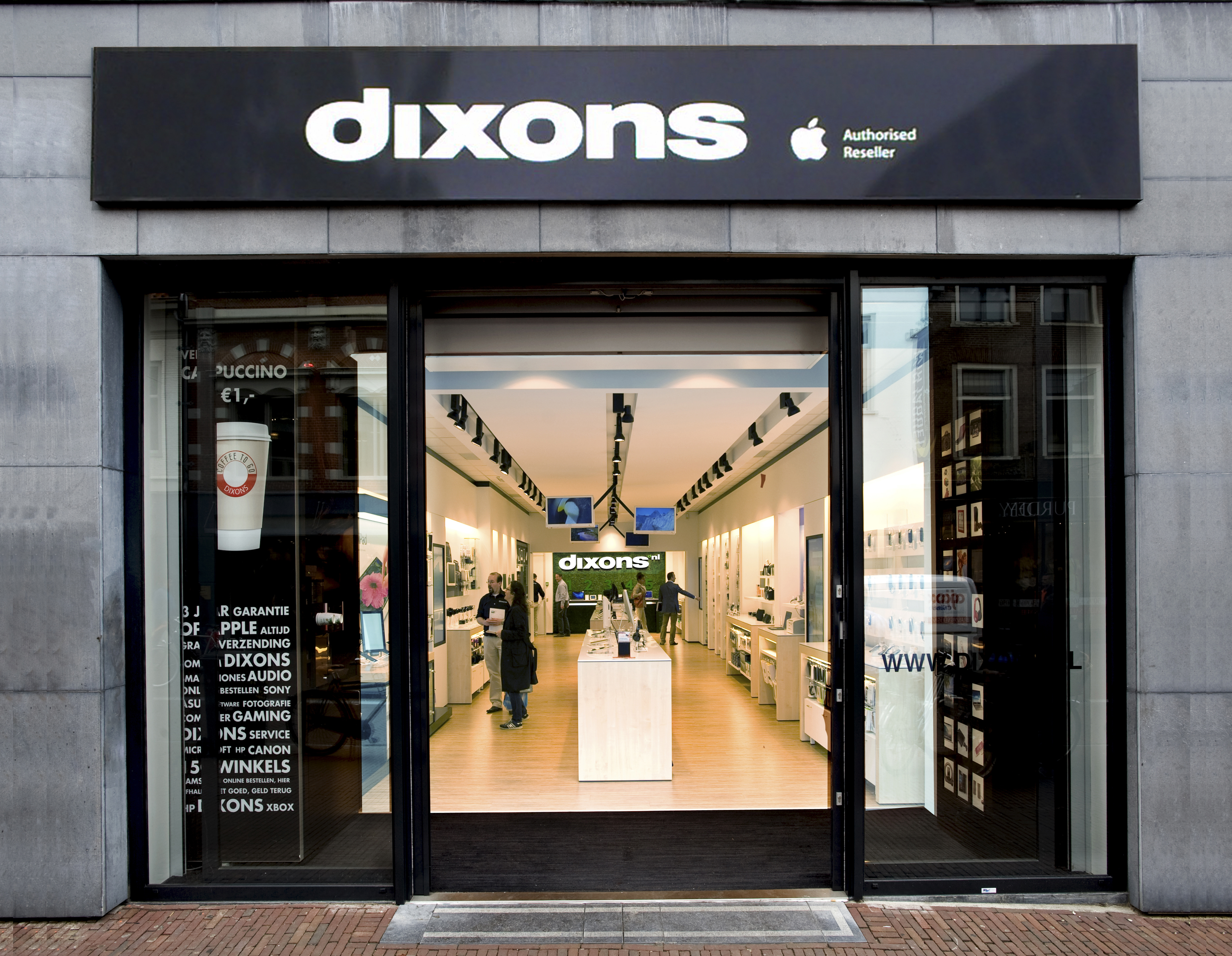 Dixons shop in Lelystad